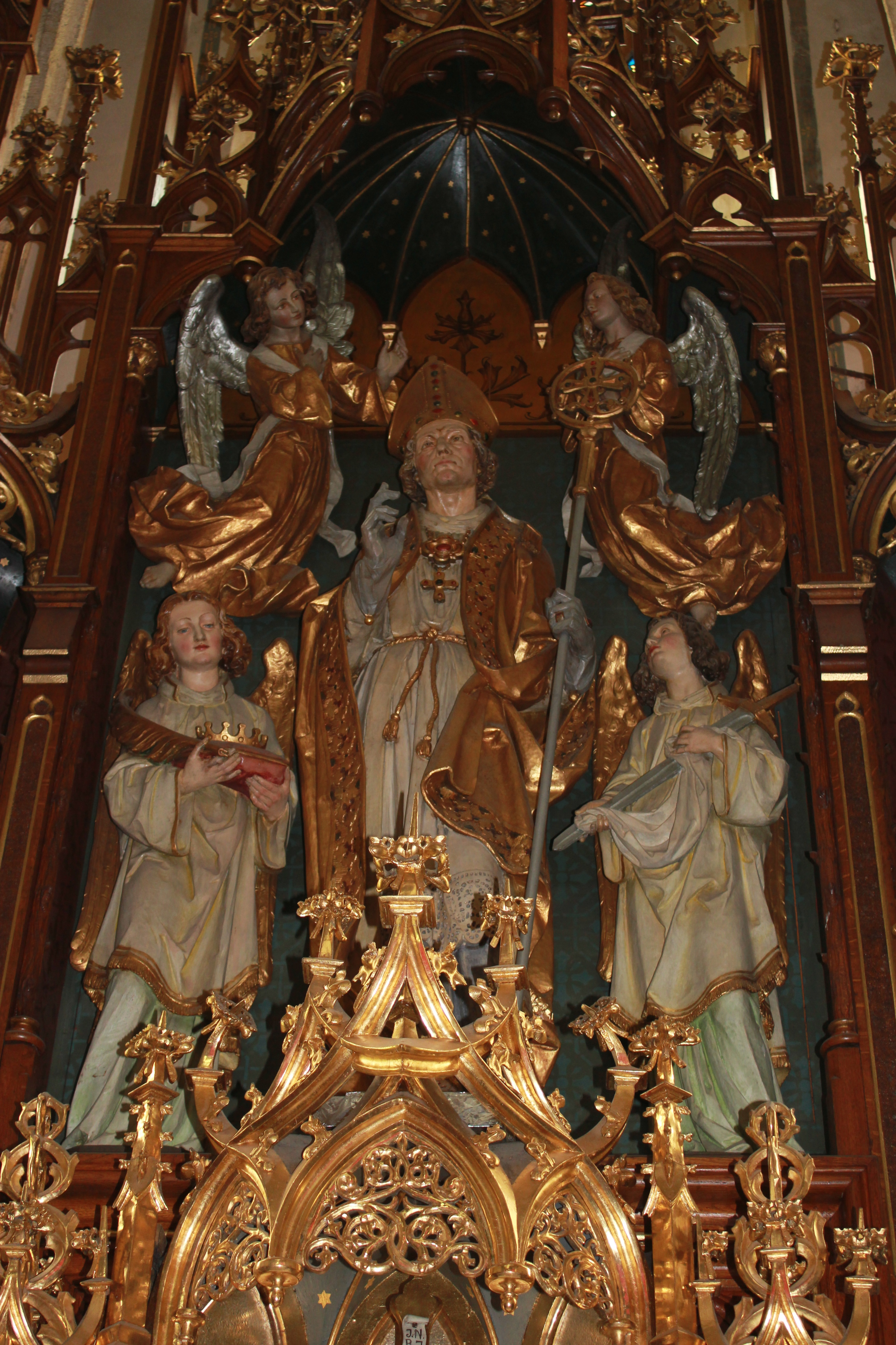 Parish church in Althofen - Altar - Thomas Becket